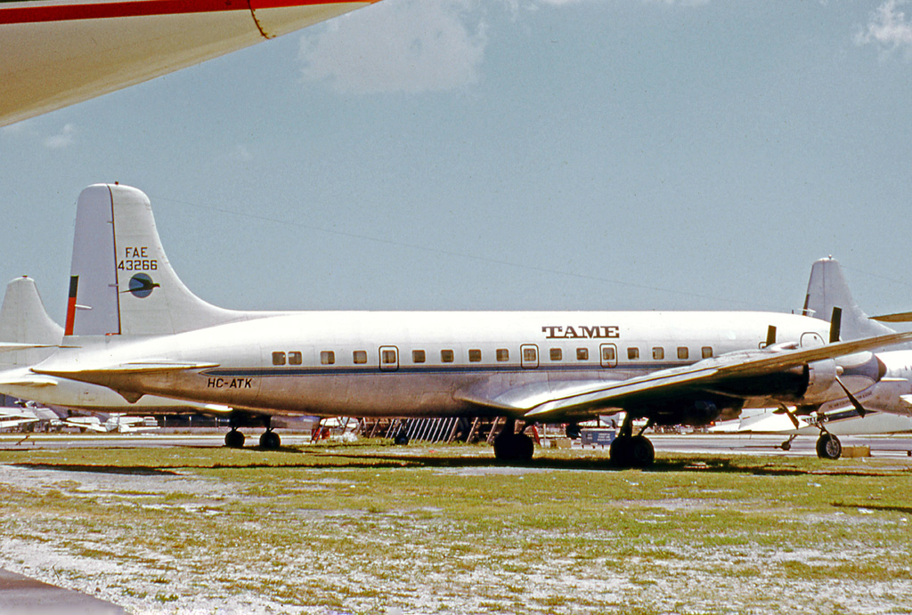 Douglas DC-6B HC-ATK FAE43266 of TAME Ecuador at Miami International Airport.